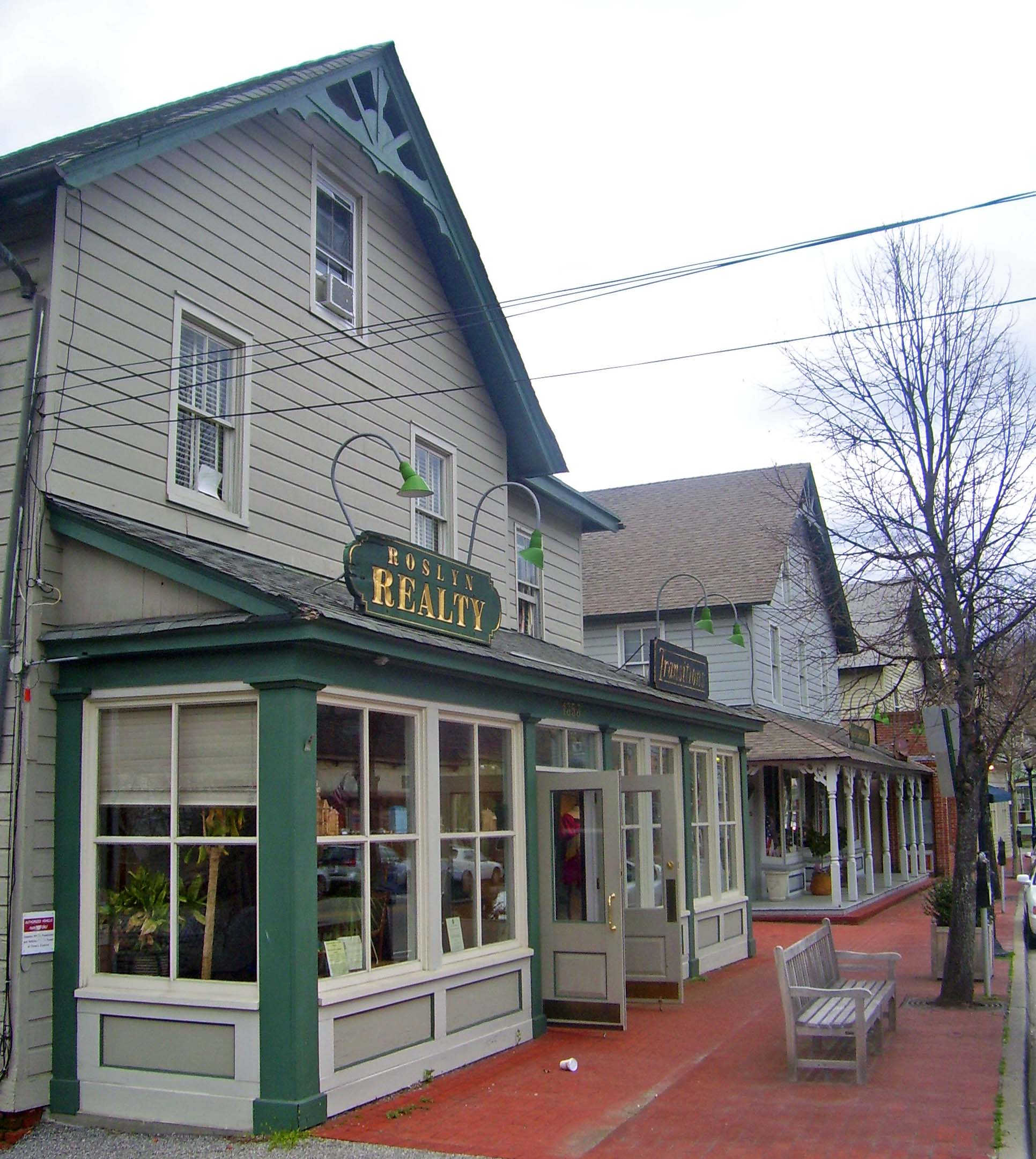 Shops along Old Northern Boulevard in Roslyn, NY, USA, part of the Roslyn Village Historic District